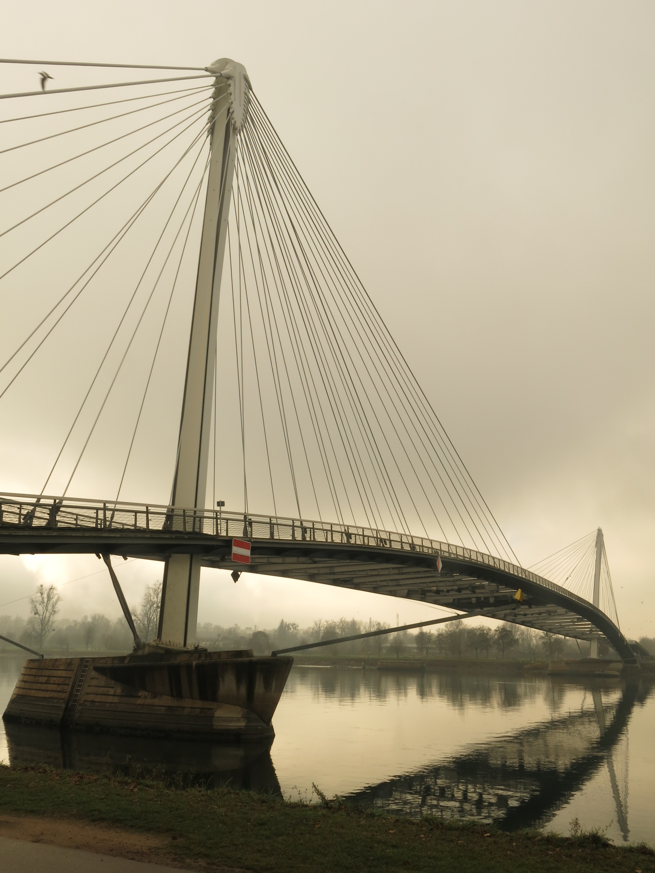 The passerelle des Deux-Rives (=gateway of the 2 banks) seen from the German bank ; Strasbourg (Bas-Rhin, France).